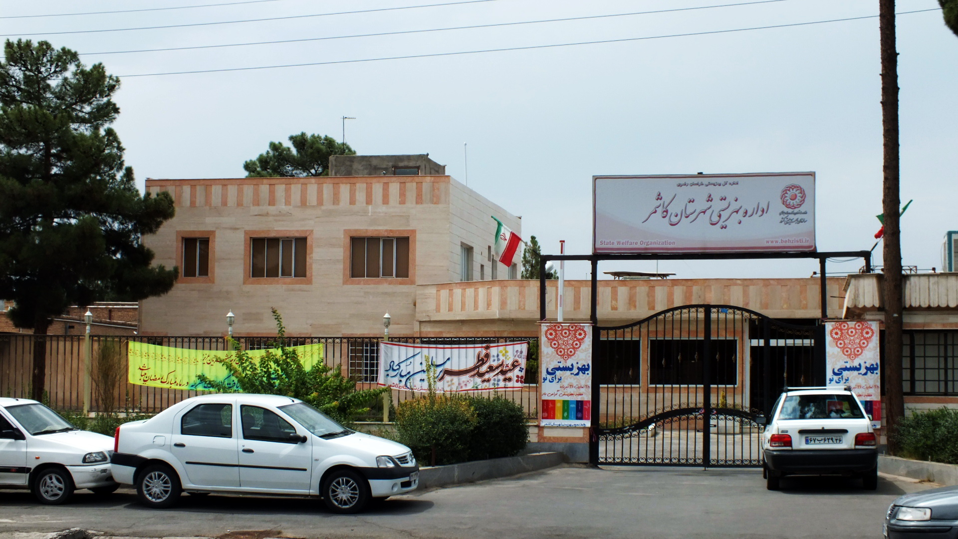 Welfare Office of Kashmar